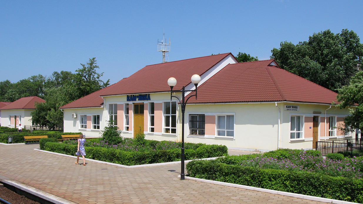 Kamyanka railway station, Odesa Railway, Ukraine